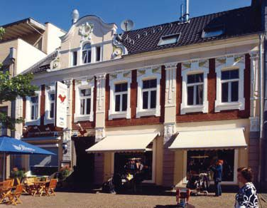 Hauptstr. 26 (Bergheim)